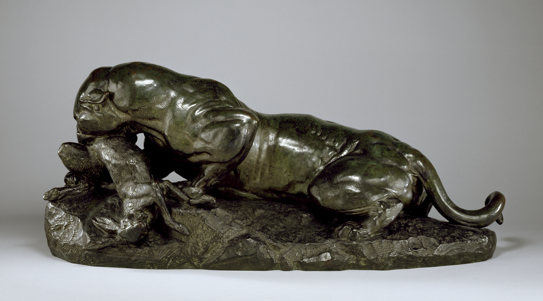 Barye contrasts the powerful, broadly rendered muscular build of the jaguar with the more detailed, limp body of the terror-stricken hare. The cat's ears are pressed against its head and its features are convulsed in fury as it prepares to devour the entrails of its prey. At the Paris Salon of 1850, "Jaguar Devouring a Hare" was exhibited together with "Lapith Combating a Centaur" -one work representing the artist's most romantic side and the other, his most classical. Both sculptures were acclaimed masterpieces. The critic Théophile Gautier observed of this sculpture: "The mere reproduction of nature does not constitute art; [Barye] aggrandizes his animal subjects, simplifying them, idealizing and stylizing them in a manner that is bold, energetic, and rugged, that makes him the Michael Angelo of the menagerie. A variation on this sculpture by the French modernist Henri Matisse (1869-1954) was recently acquired by the Baltimore Museum of Art."